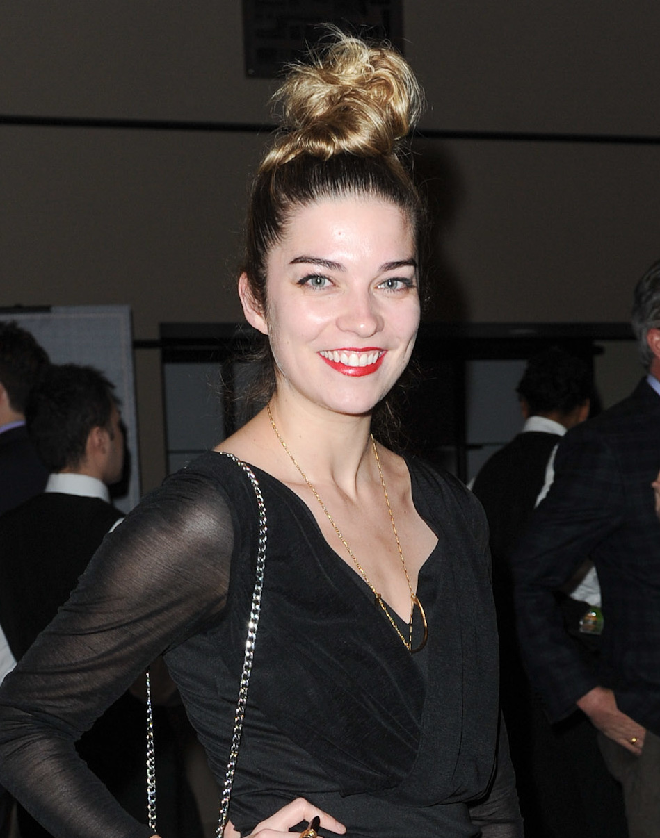 CFC Actors' Conservatory alumna and star of Schitt's Creek Annie Murphy Photo by Ernesto Di Stefano